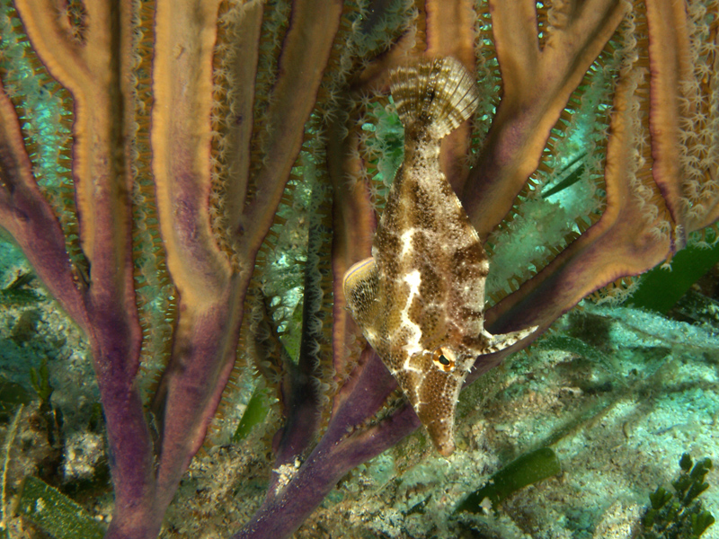 Monacanthus tuckeri (Slender filefish)